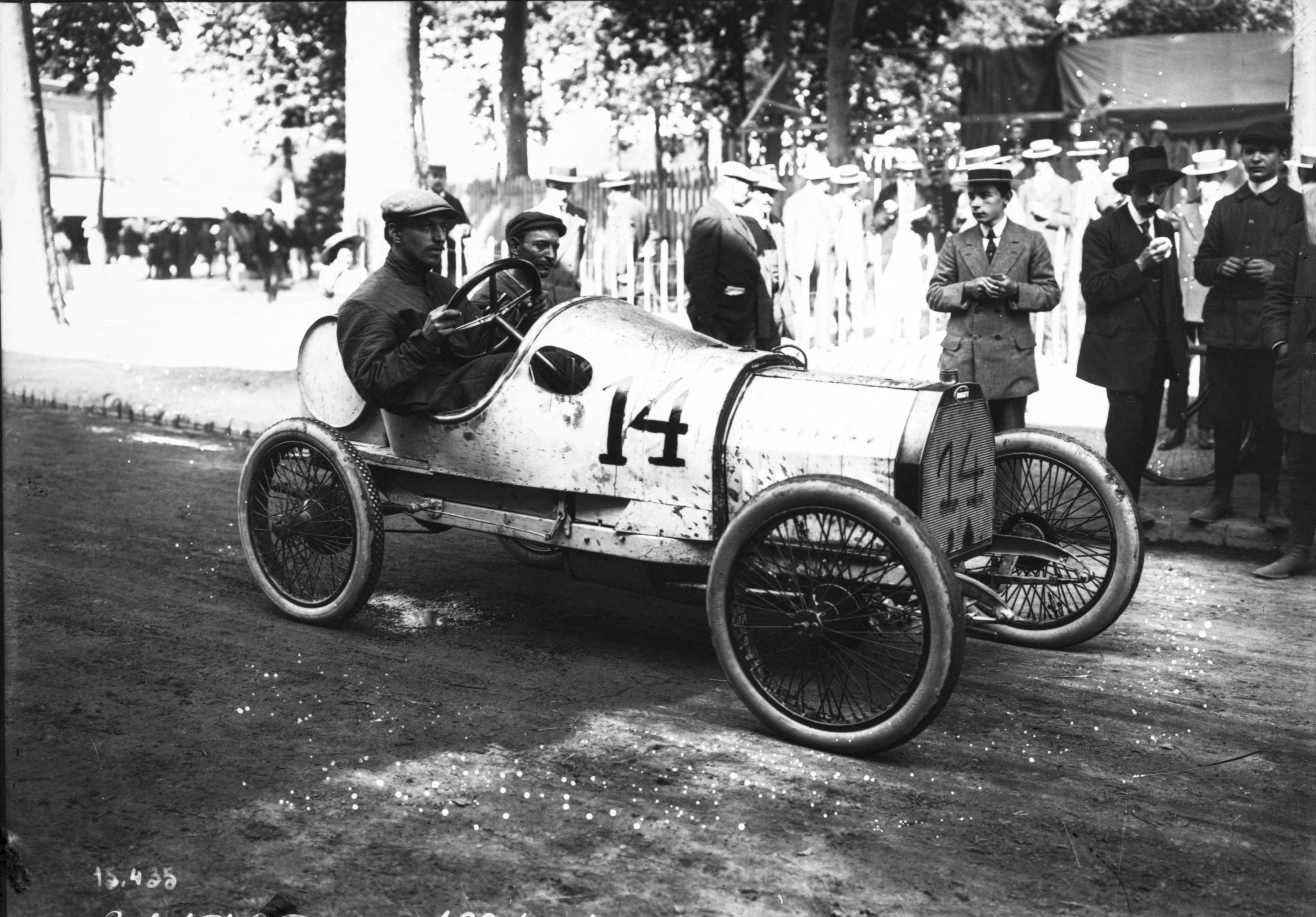 Ernest Friedrich at the 1911 Grand Prix de France at Le Mans.